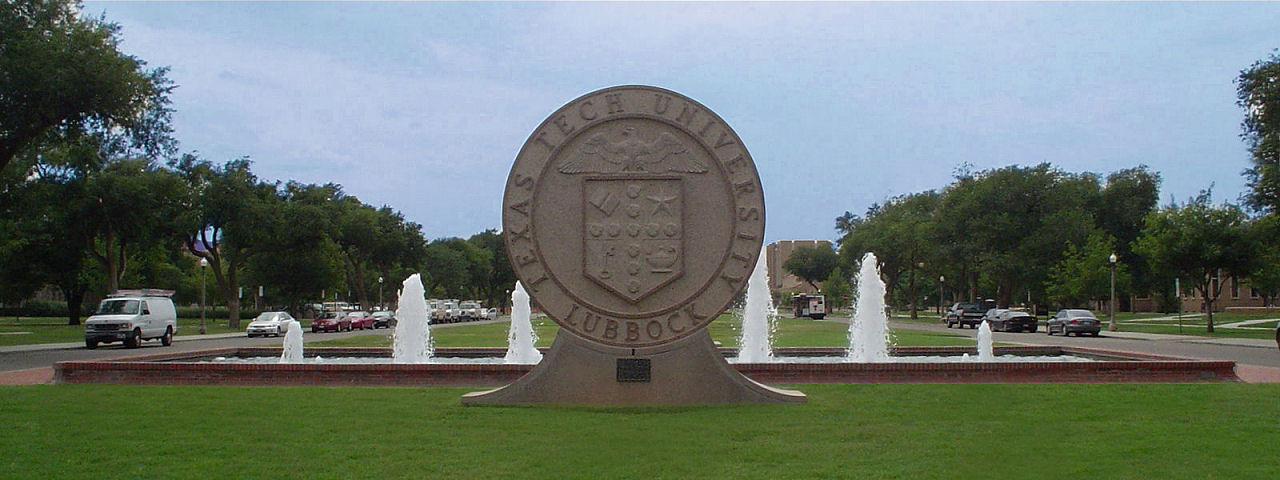 The seal of Texas Tech University. Original photo uploaded by Flcelloguy at Image:TTU Front Entrance.jpg, and edited by Elred.